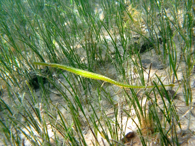 Syngnathus typhle photographed in Rab, Croatia.